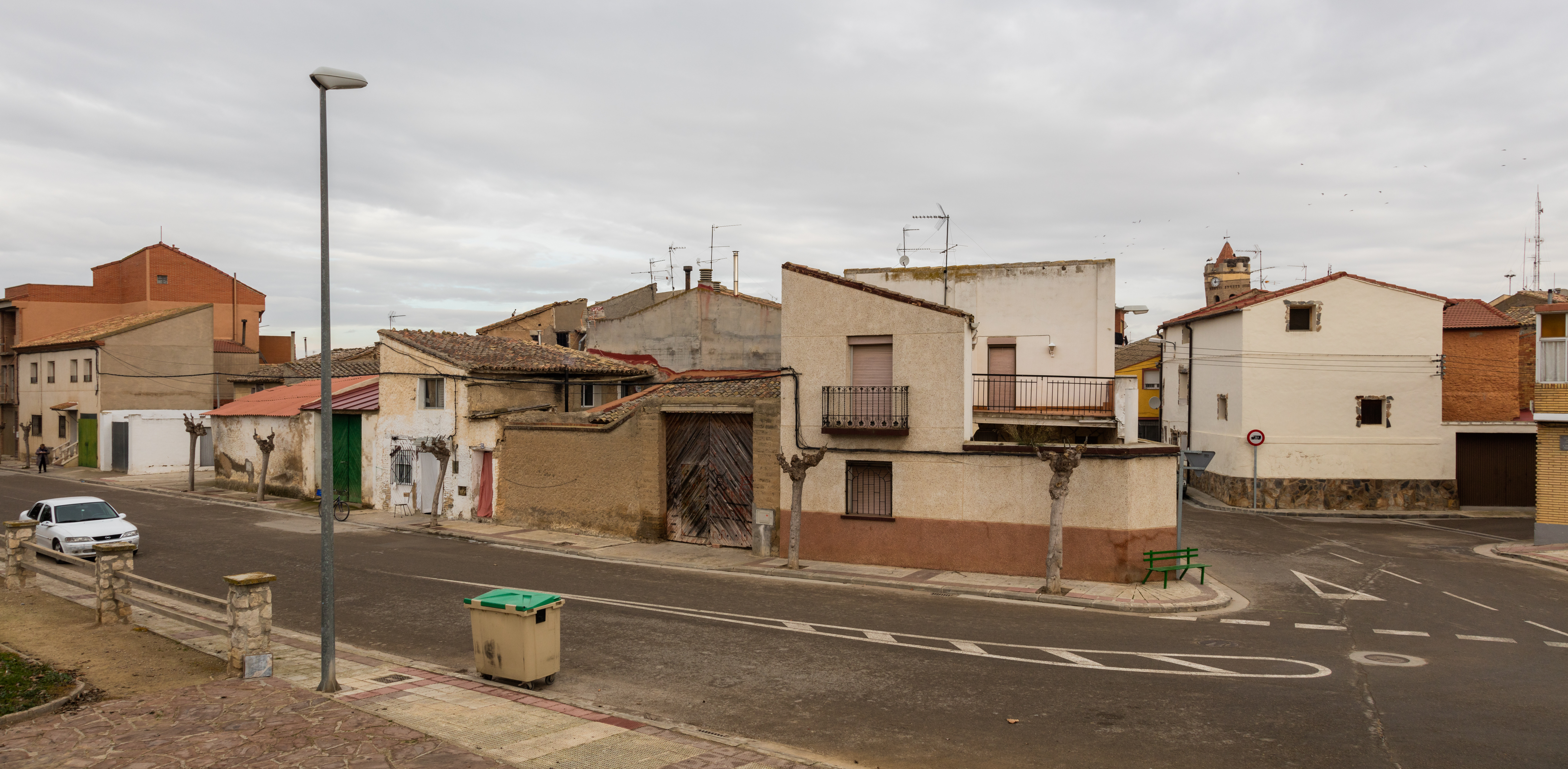 Pradilla de Ebro, Zaragoza, Spain